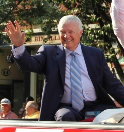 Bill Conlin - Dave Van Horne